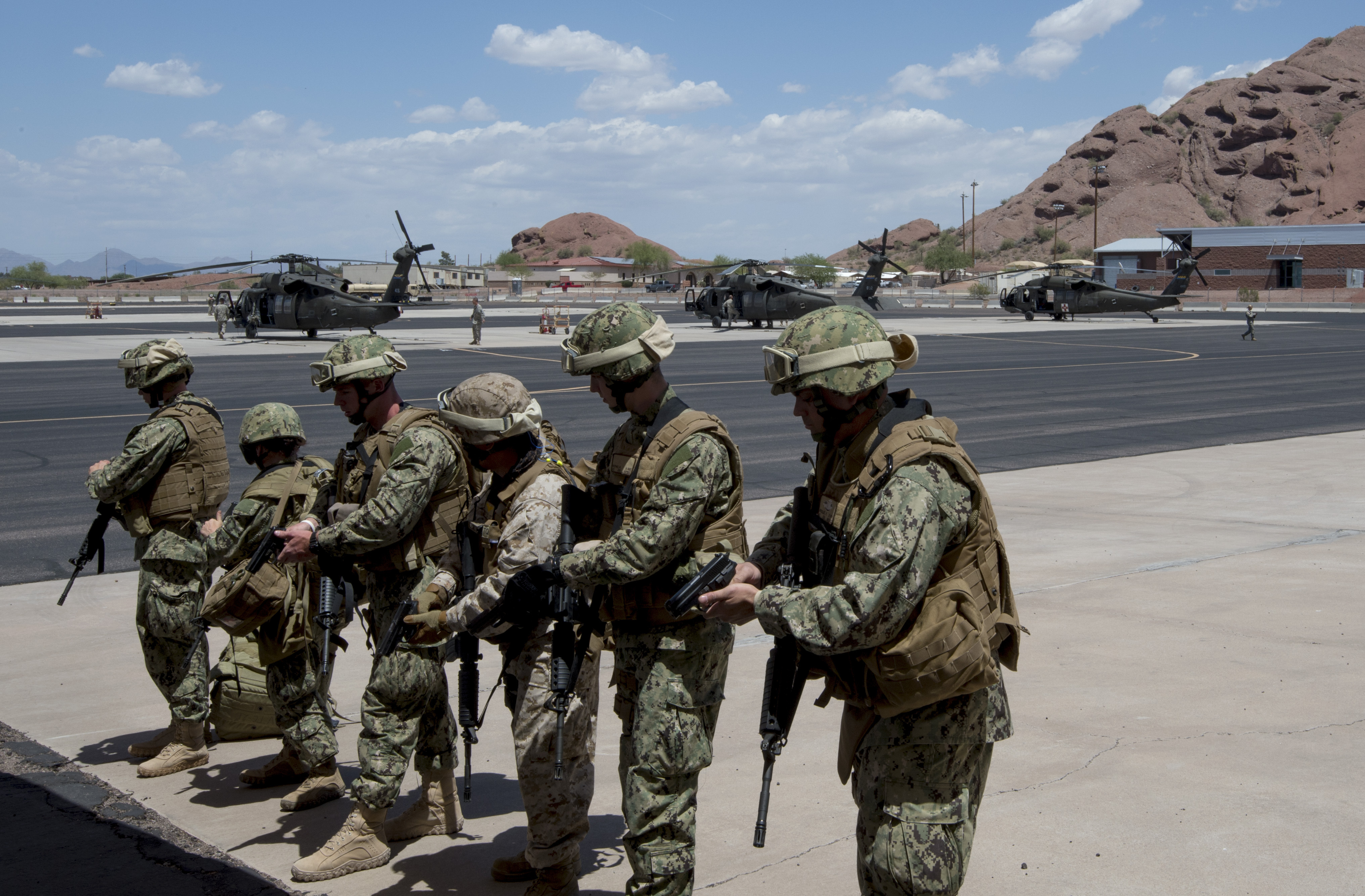 Members of the Tactical Air Control Squadron 22, Joint Expeditionary Base Little Creek-Fort Story, Va., clear their weapons before a mission during Exercise Angel Thunder, Papago Army Air Field, Phoenix, Ariz., May 8, 2014. Angel Thunder is a multilateral annual exercise that supports the DoD's training requirements for personnel recovery responsibilities through high-fidelity exercises. AT provides the most realistic PR training environment available to USAF rescue forces as well as their joint, interagency and coalition partners. (U.S. Air Force photo by Tech. Sgt. Bradley C. Church)